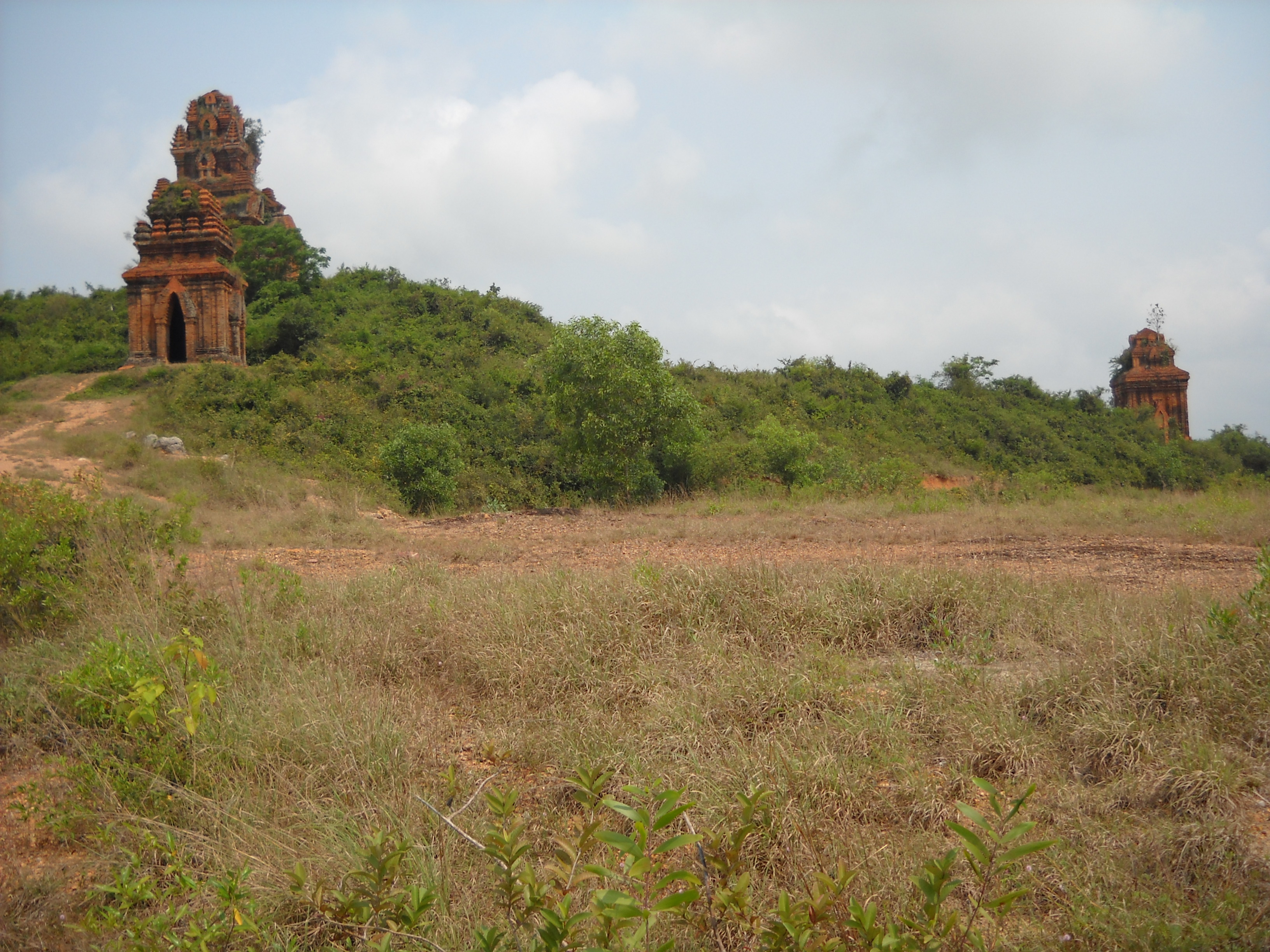 Cham towers Banh It in Tuy Phuoc district, Binh Dinh province, Vietnam